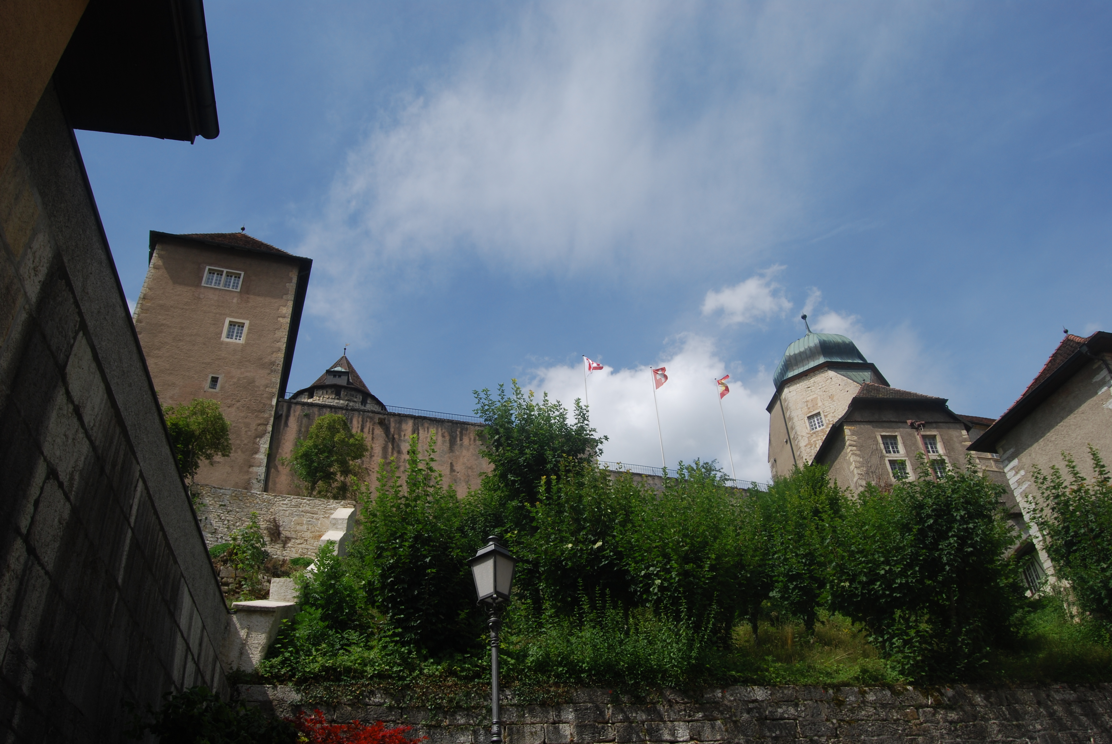 Castle of Porrentruy, canton of Jura, SwitzerlandEsperanto: Kastelo Porrentruy, Kantono Ĵuraso, Svislando